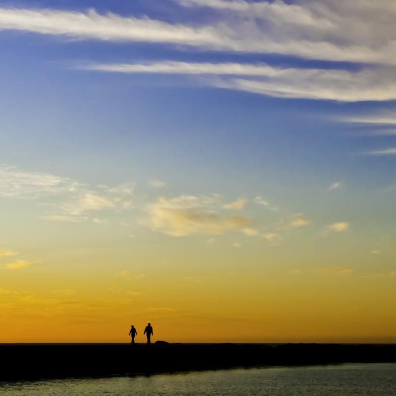 The original